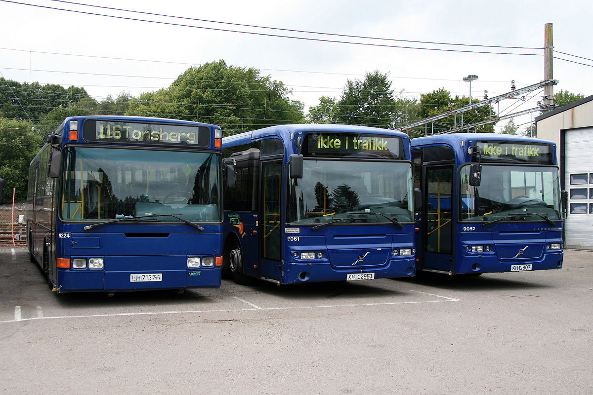 Buses from Nettbuss Vestfold in Tønsberg in Vestfold Kollektivtrafikk livery.